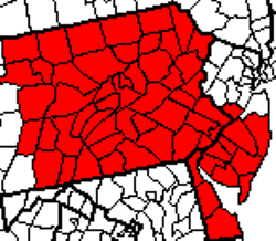 Map of the Third District of the Federal Reserve System